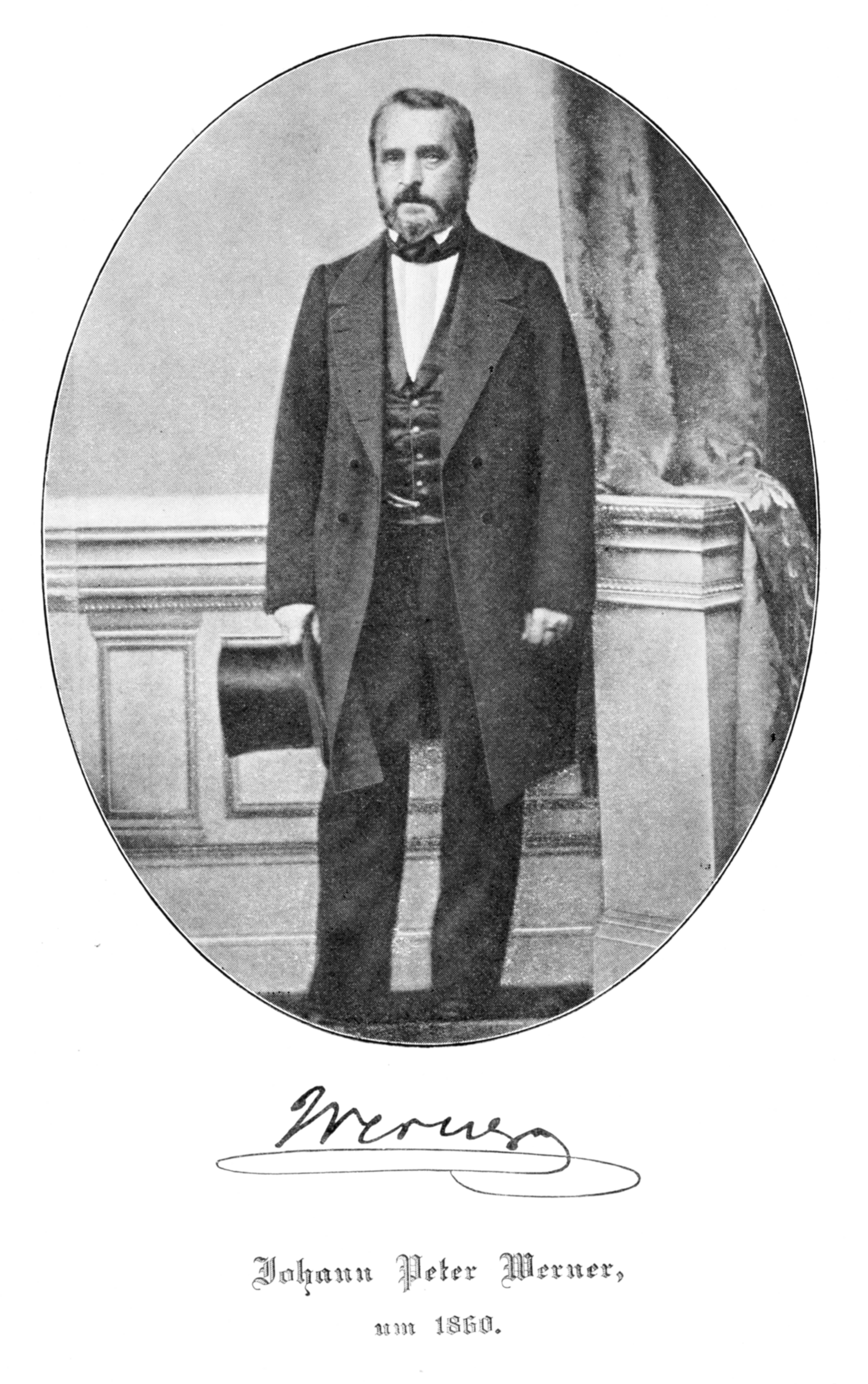 Portrait of Johann Peter Werner with signature, around 1860